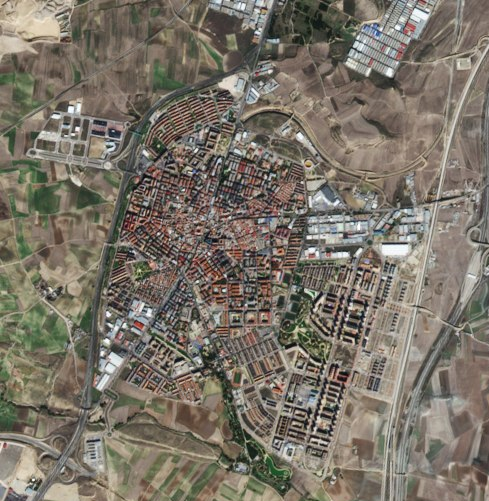 The diverse landscapes of the autonomous Community of Madrid in the heart of Spain are evident in this week’s image. The community and country’s capital city is visible near the centre of the image. Zooming in, we can see the Buen Retiro park just east of the city centre with its large, artificial pond. About 3.5 km due north sits the Santiago Bernabéu football stadium. Southeast of the stadium we can see another circular structure: the Las Ventas bullfighting ring. In the upper left corner of the image is the El Pardo mountain and protected natural park, which is popular for mountain biking. The other areas surrounding Madrid are blanketed with agricultural structures. East of the city are large fields along the Jarama river, and more areas of agriculture appearing brown further east still. This image, also featured on theEarth from Space video programme, was taken by the Sentinel-2A satellite on 16 November 2015. Launched in June 2015, Sentinel-2 can map changes in land cover such as forest, crops, grassland, water surfaces and artificial cover like roads and buildings in cities. Early results from the mission on mapping changes in land cover are expected to be presented at the upcoming Living Planet Symposium, held in Prague in May. The event brings together scientists and users to present their latest findings on Earth’s environment and climate derived from satellite data.